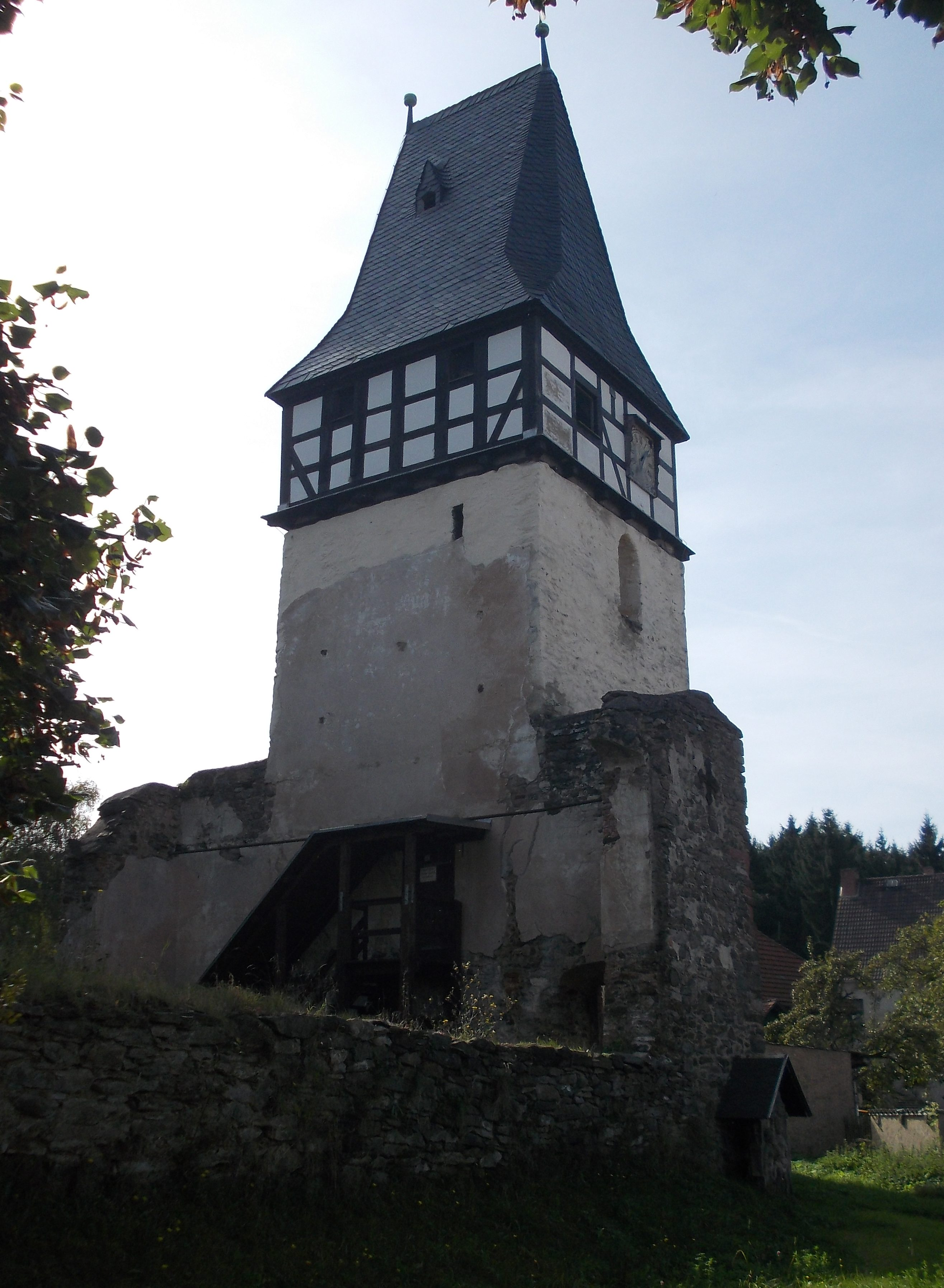 Ruins of St. Stephen's Church in Abberode (Mansfeld, Mansfeld-Südharz district, Saxony-Anhalt)